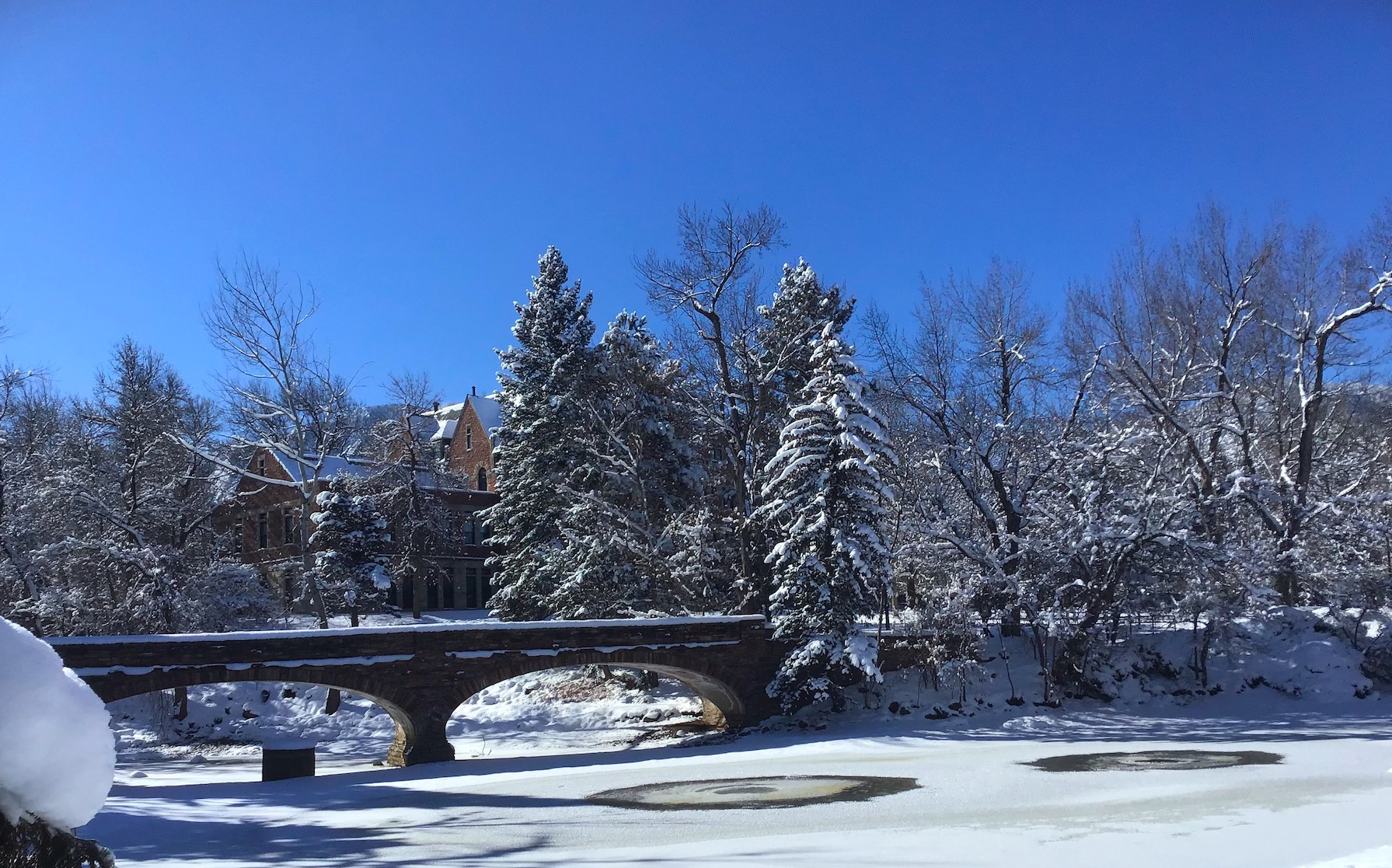 This is located behind the Old-Main.